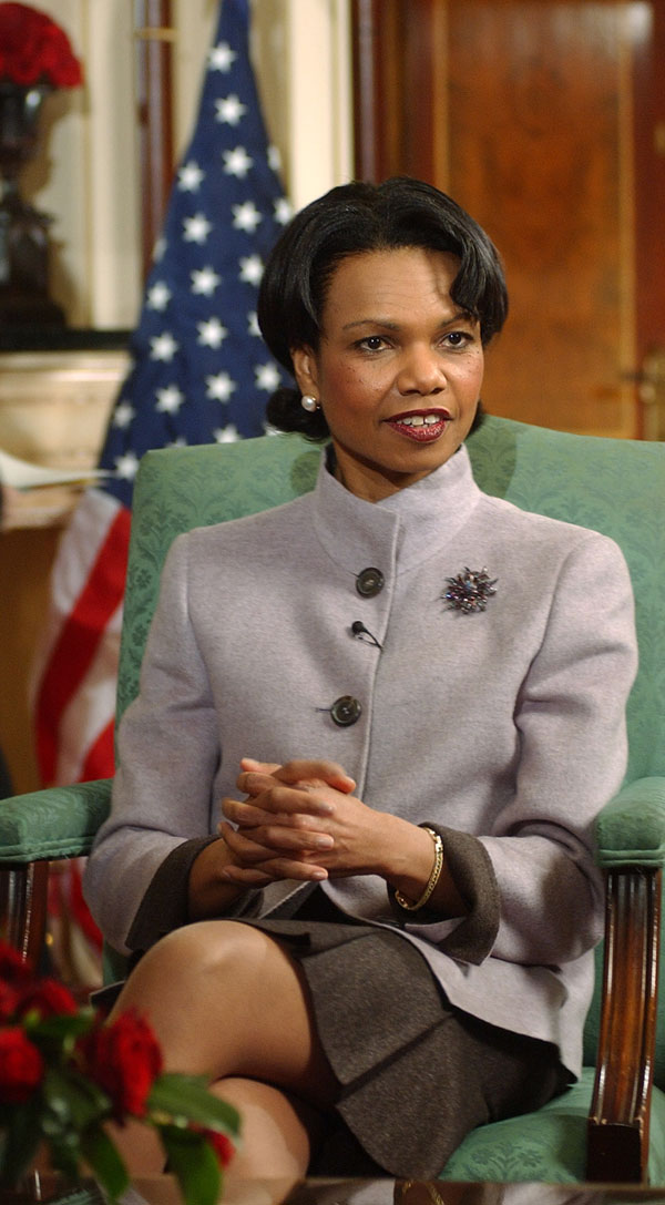 Condoleezza Rice London, England March 1, 2005 source